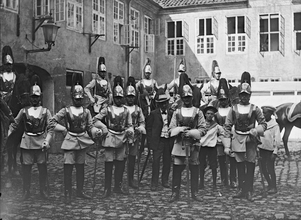 The Royal Horse Guards' old barracks at Frederiksholms Kanal in Copenhagen, Denmark